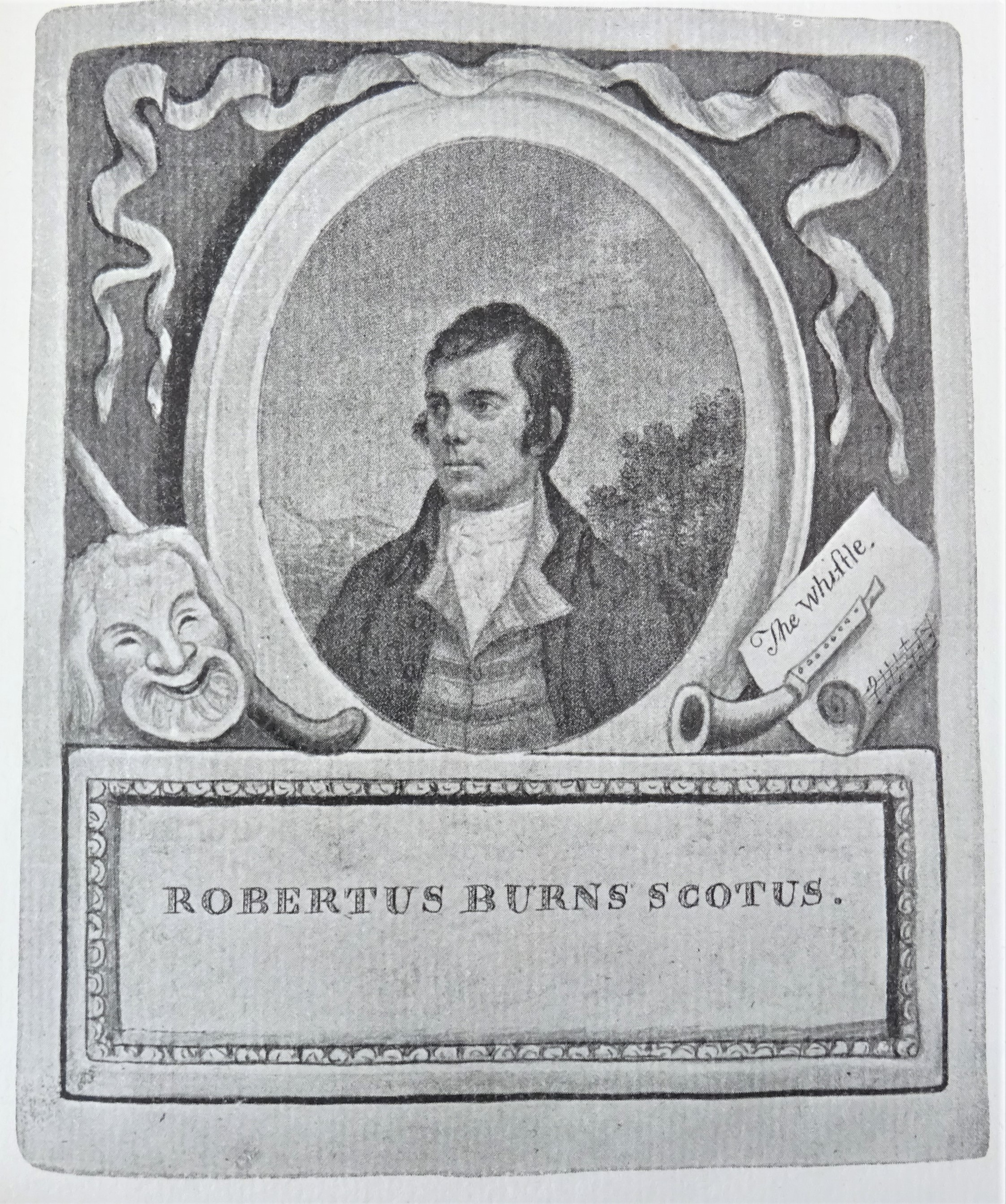 The Frontispiece by John Beugo 1791 In the 1914 Glenriddel Manuscript facsimile.